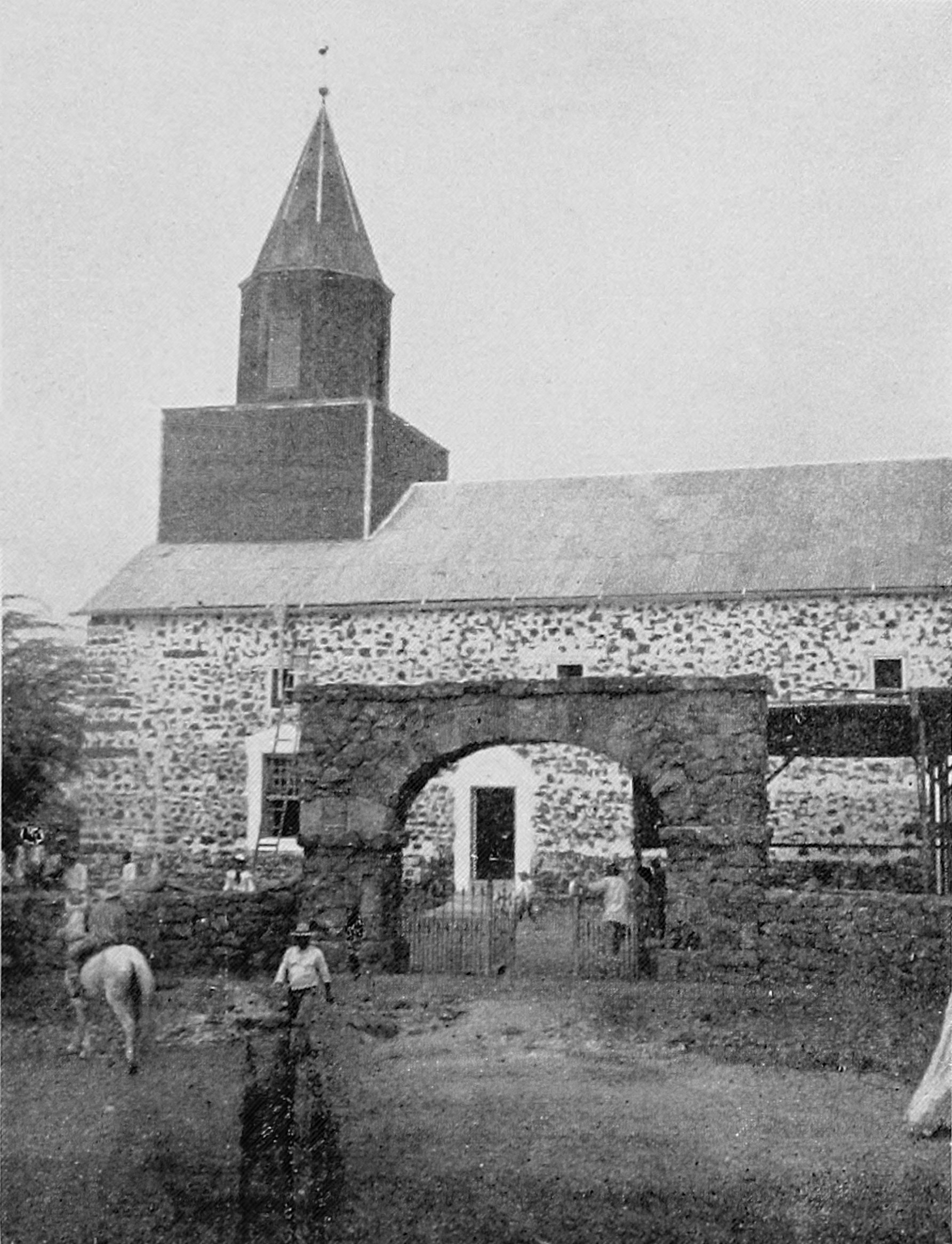 Moku'aikaua Church was founded by the Thurstons in 1837 caption Kailua Church. Built in 1836, and still in constant use. Before it is the Memorial Arch erected in 1900 to the Kailua Pilgrims of 1820.